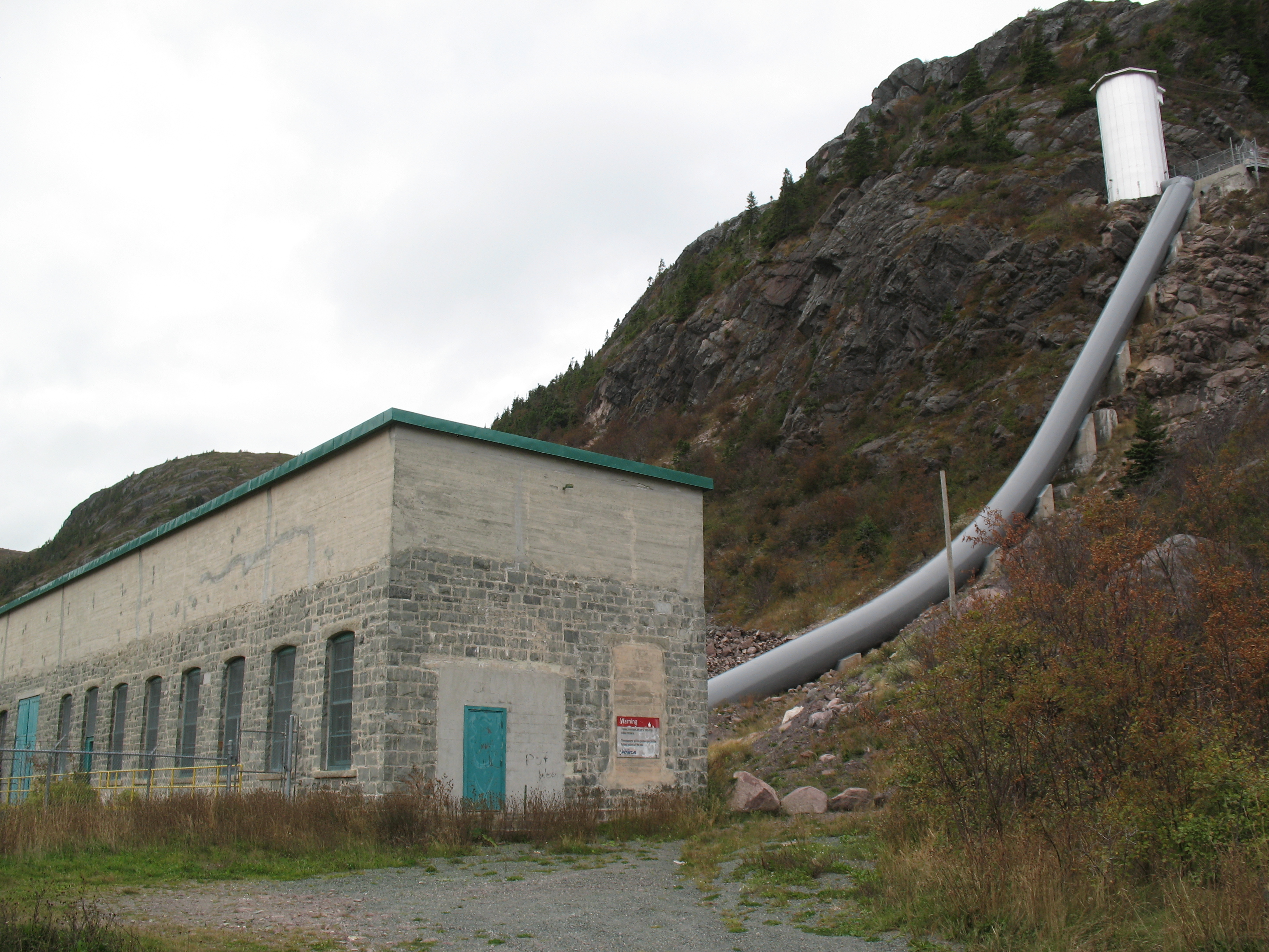 Petty Harbour Hydro-Electric Generating Station